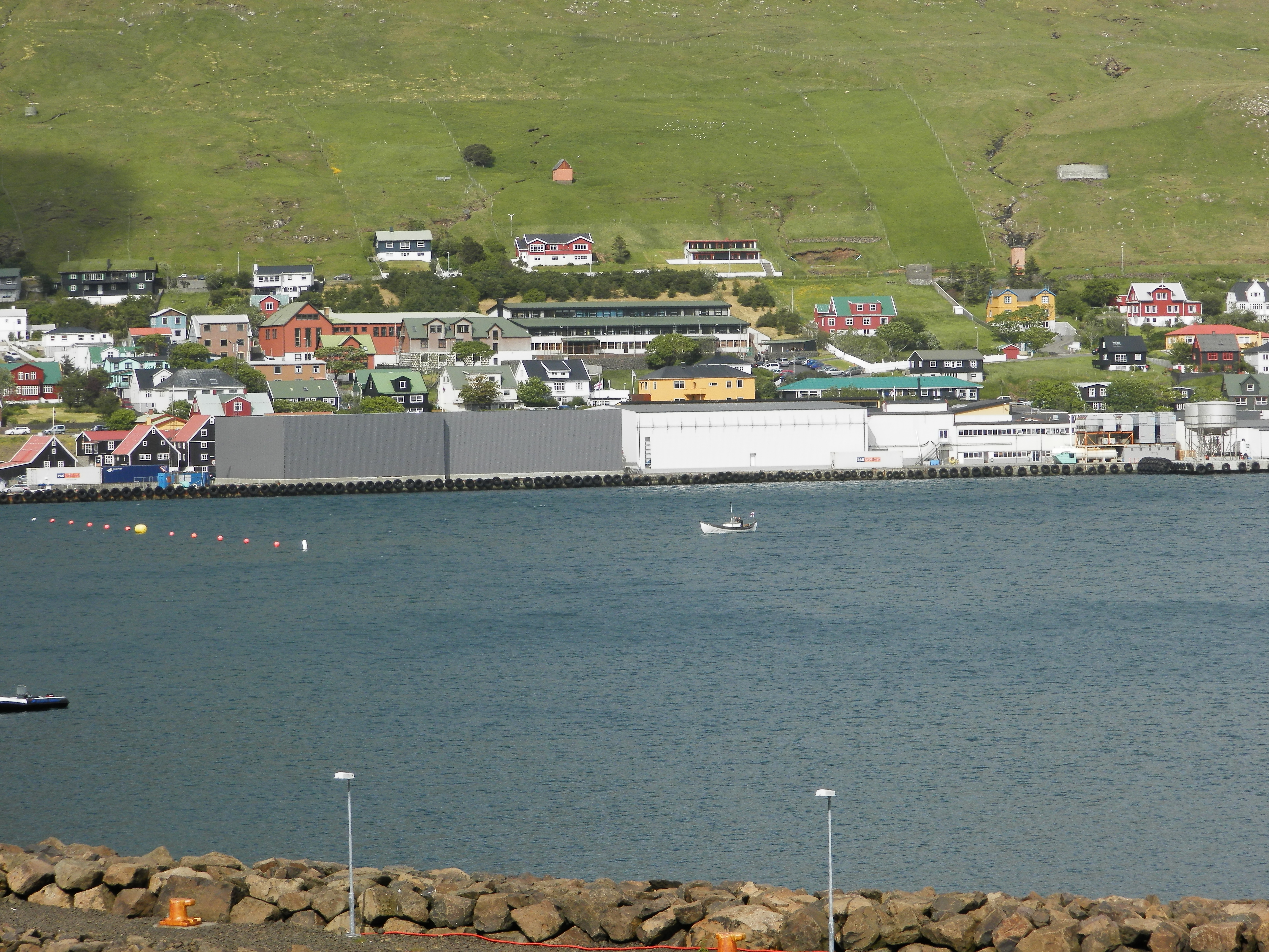 Tvøroyri is one of the larger towns of the island Suðuroy in the Faroe Islands. In 2012 a new full automatic processing plant was built and opened in Tvøroyri, it is called Vardin Pelagic (in Faroese spelled Varðin Pelagic). The factory gives jobs to up to 100 people, they work with Mackerel and Herring, Blue whiting and Capelin, which they export.